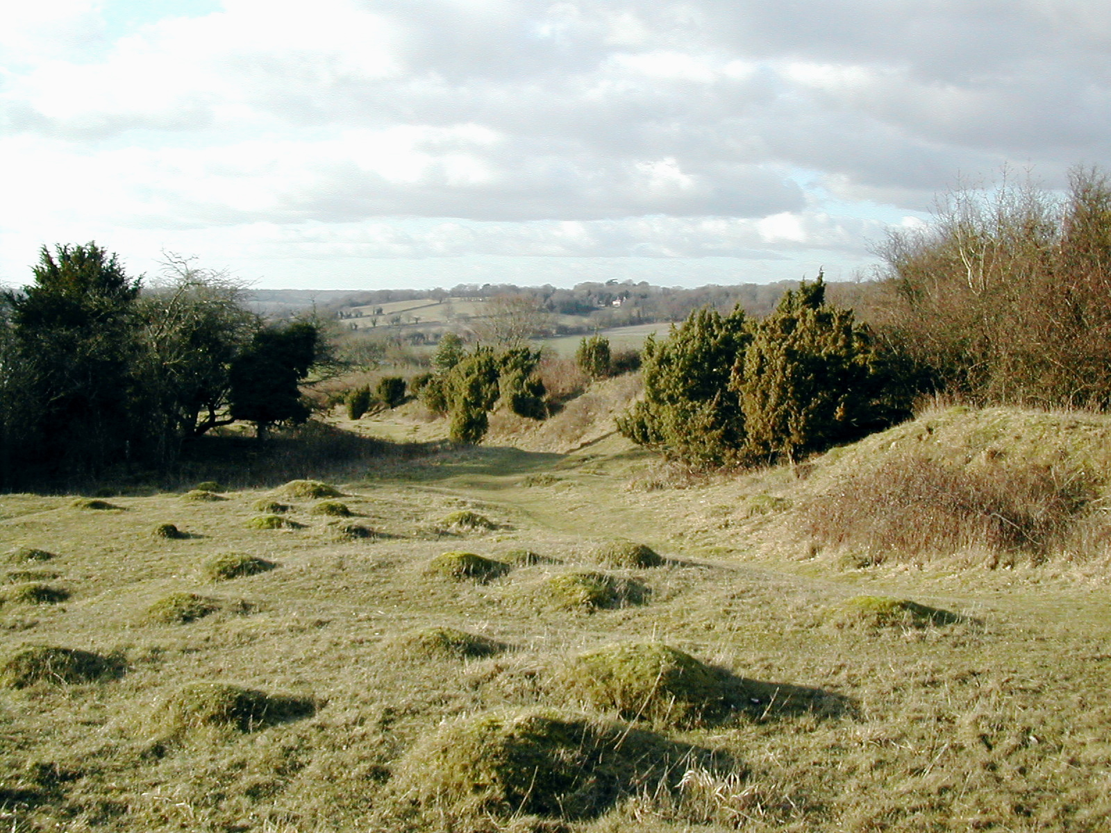 Noar Hill, Hampshire. Photographed by Jonathan Barnes, 26 Jan 2006